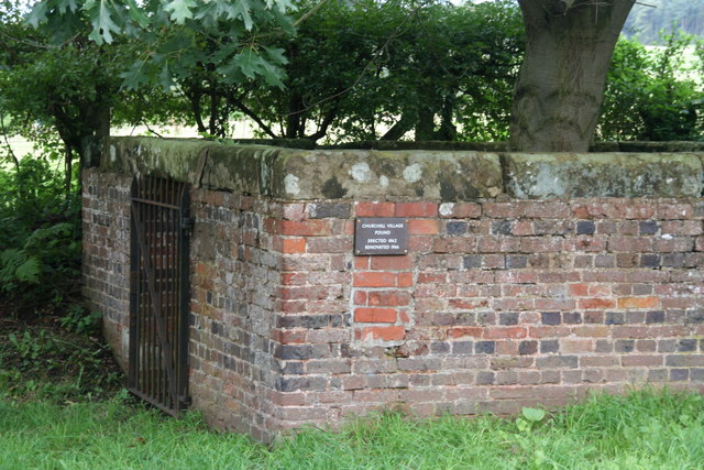 Churchill Village Pound Churchill Pound: the place where straying or illegally pastured animals were confined. Erected in 1862